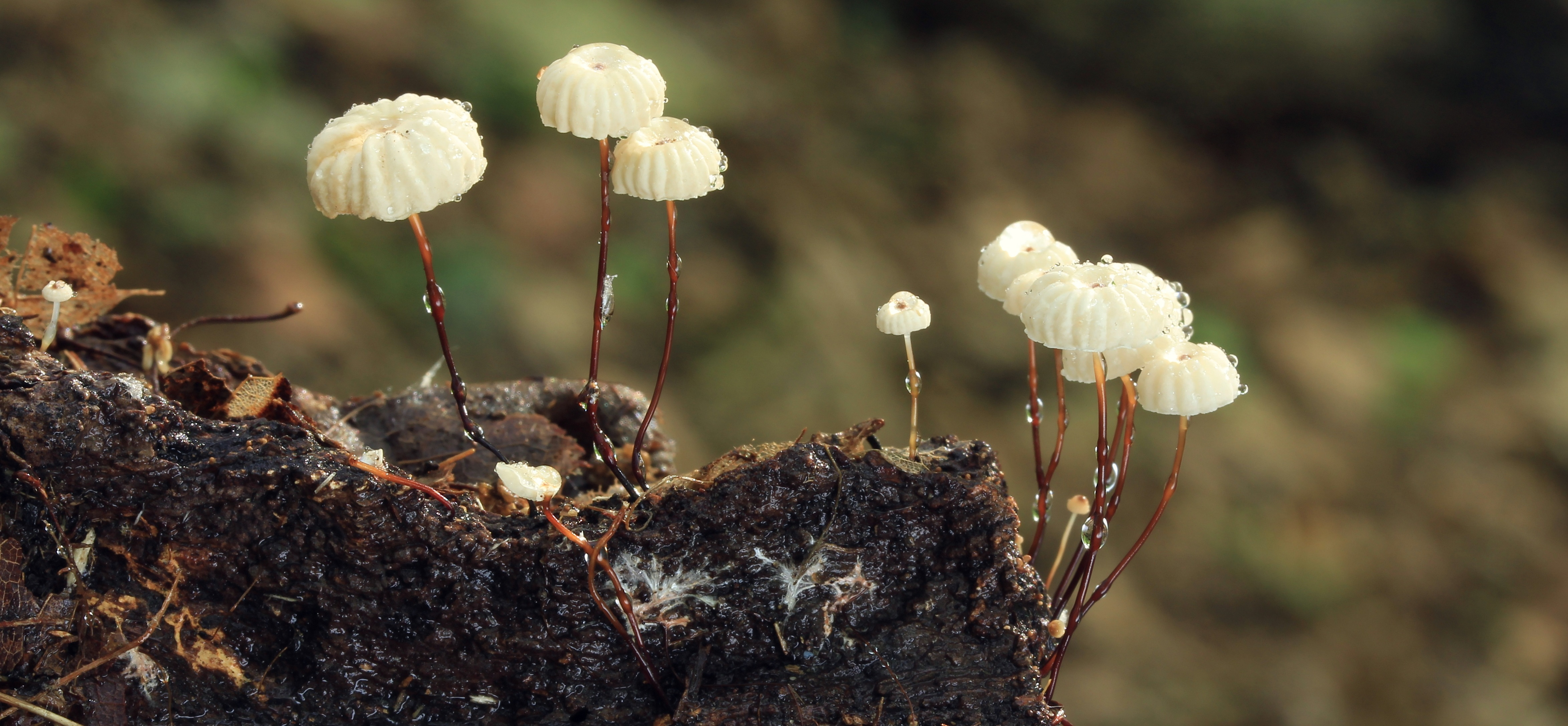 Marasmius rotula.